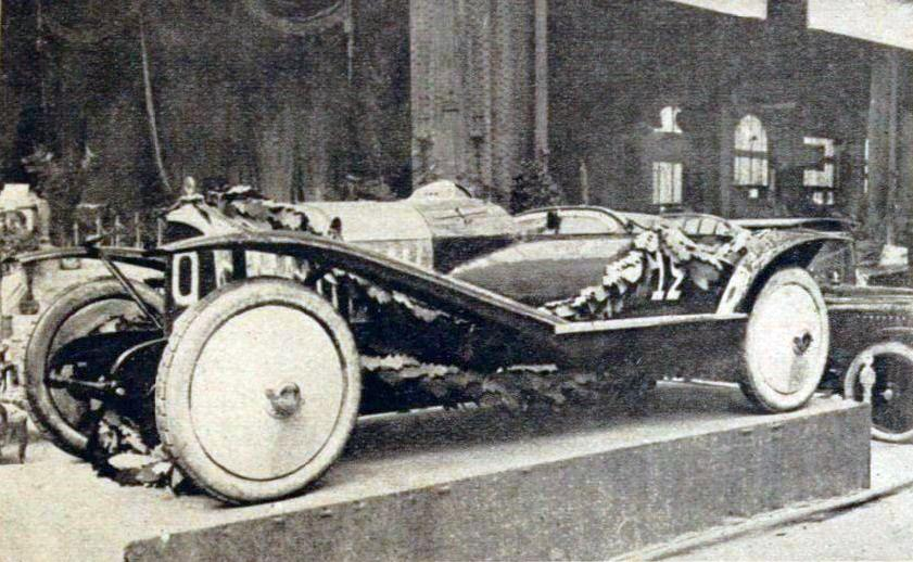 1922 Voisin C3 S, 4-seater torpedo ("Type GP de Strasbourg"). The winner in the 1922 A.C.F. Touring class in Strasbourg. One of four special 120 bhp 3,969 ccm Voisins made for this race, based on a shortened C3 (C3 "court"; "court" is french for "short").[1] The "cigarshaped" bulge midway is to meet the regulation of 1.3 meter width.[2] A replica was made in 2006 in Strasbourg